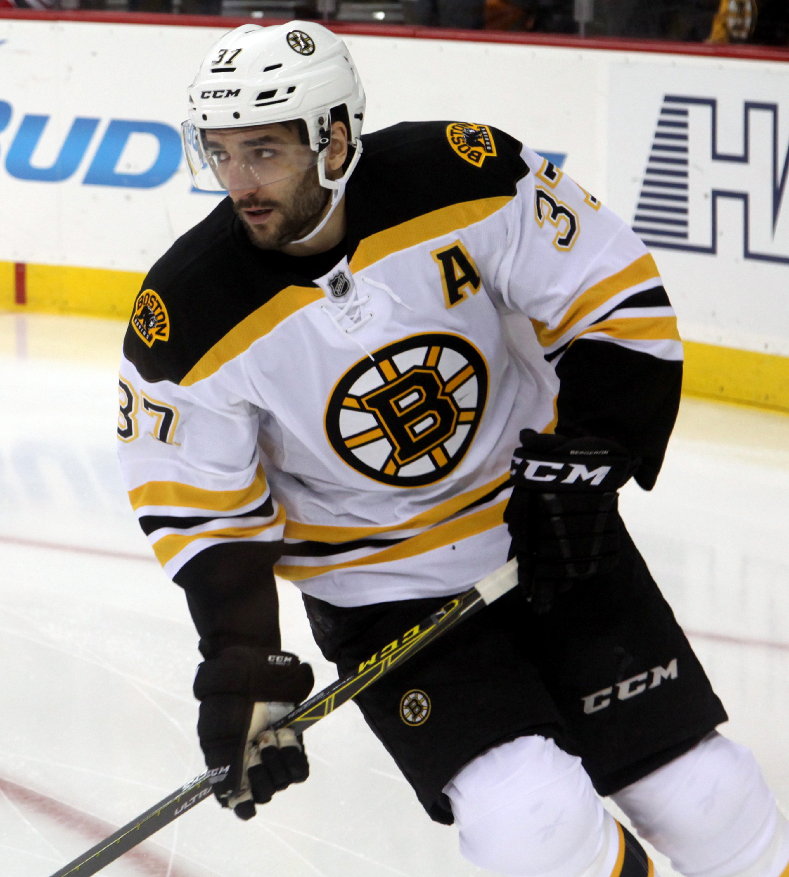 Bergeron in January 2016.